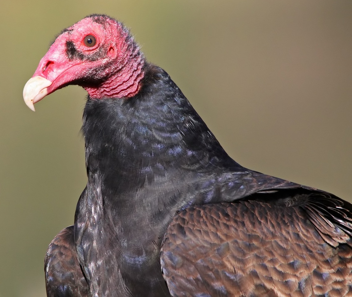 Head detail of a Turkey vulture scavenging near Milpitas, California.